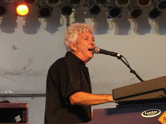 Ian McLagan & The Bump Band. ACL 2006 (Day 2) - Photo by Ron Baker; Austin Texas.